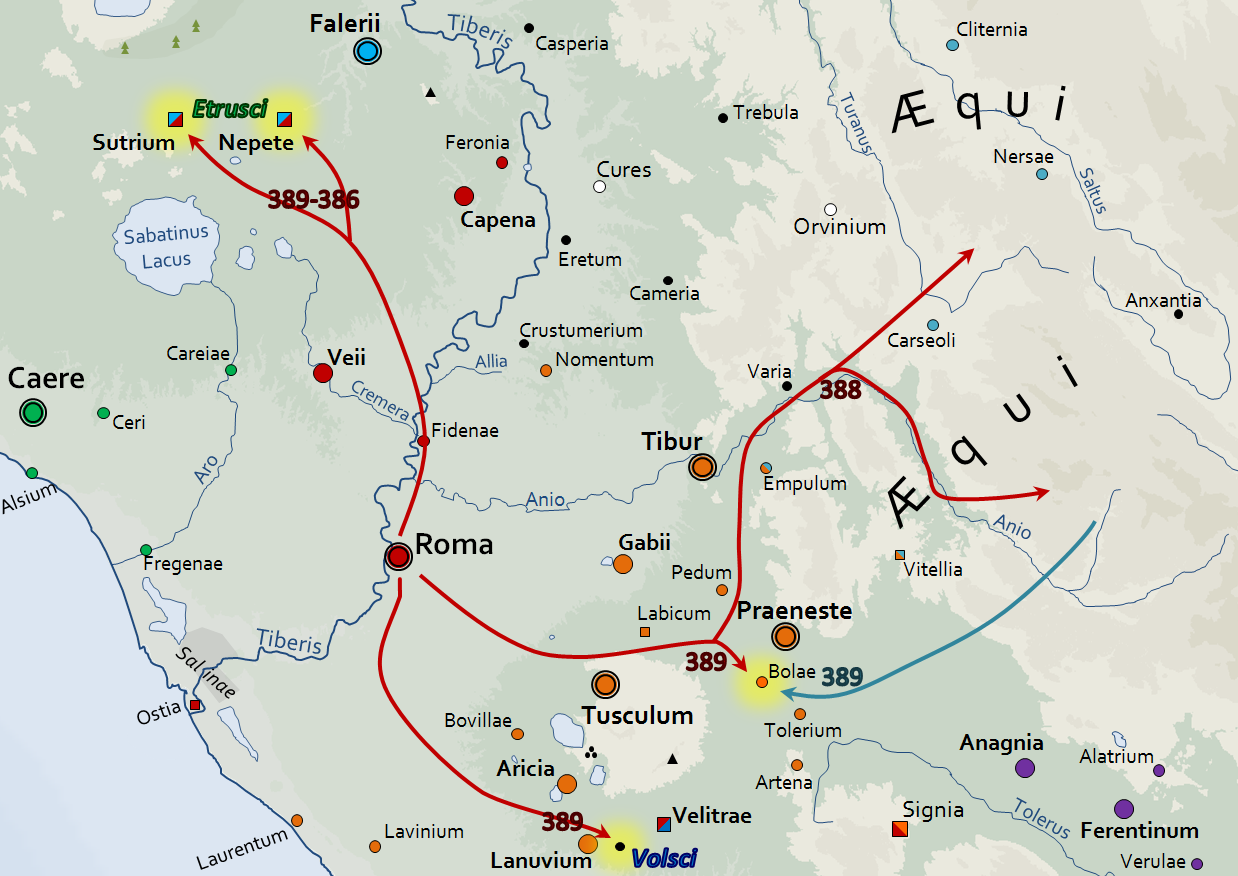 See File:Carte GuerresRomanoVolsques 389avJC.png for the broad map.